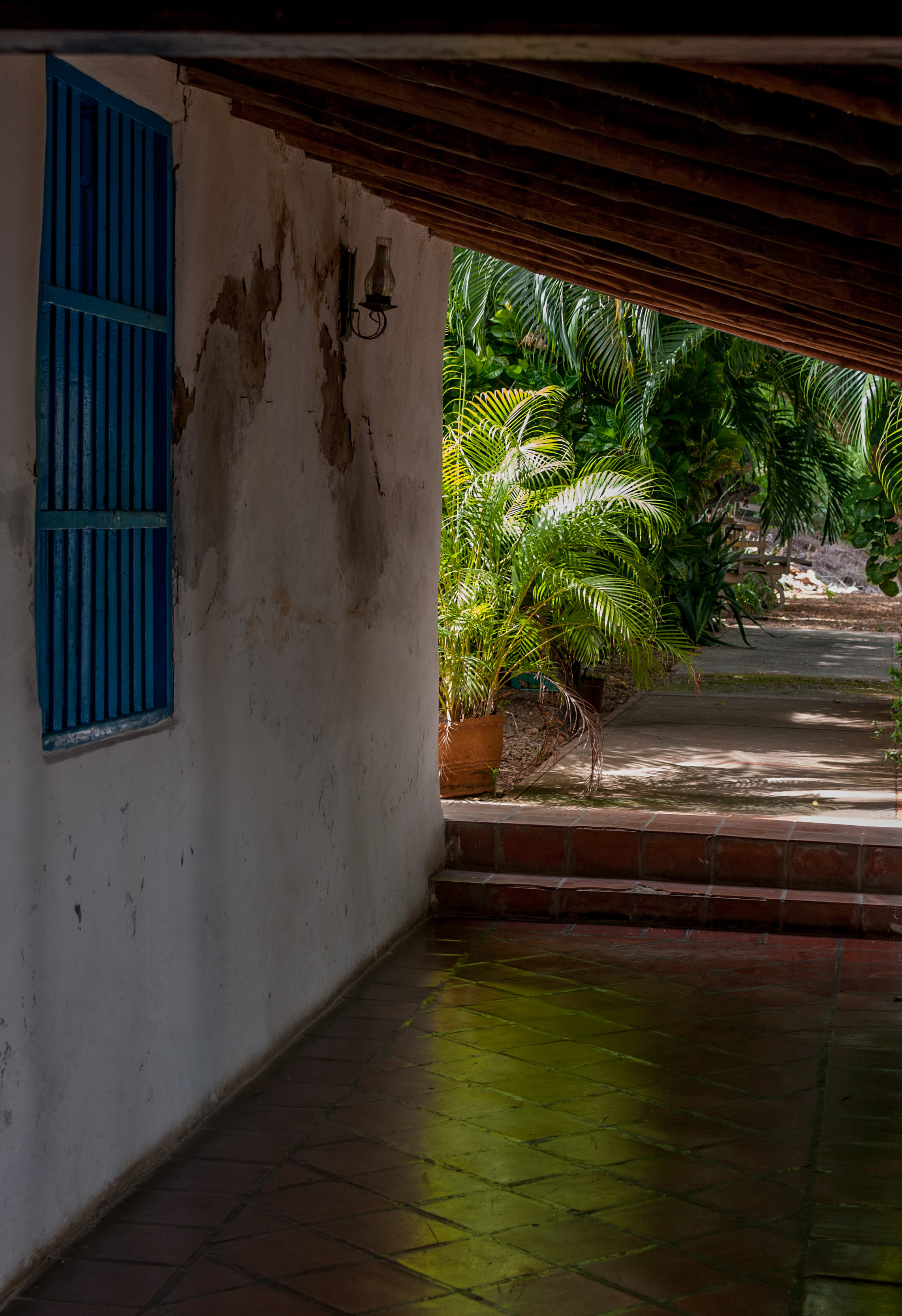 Doc Francisco Risquez House